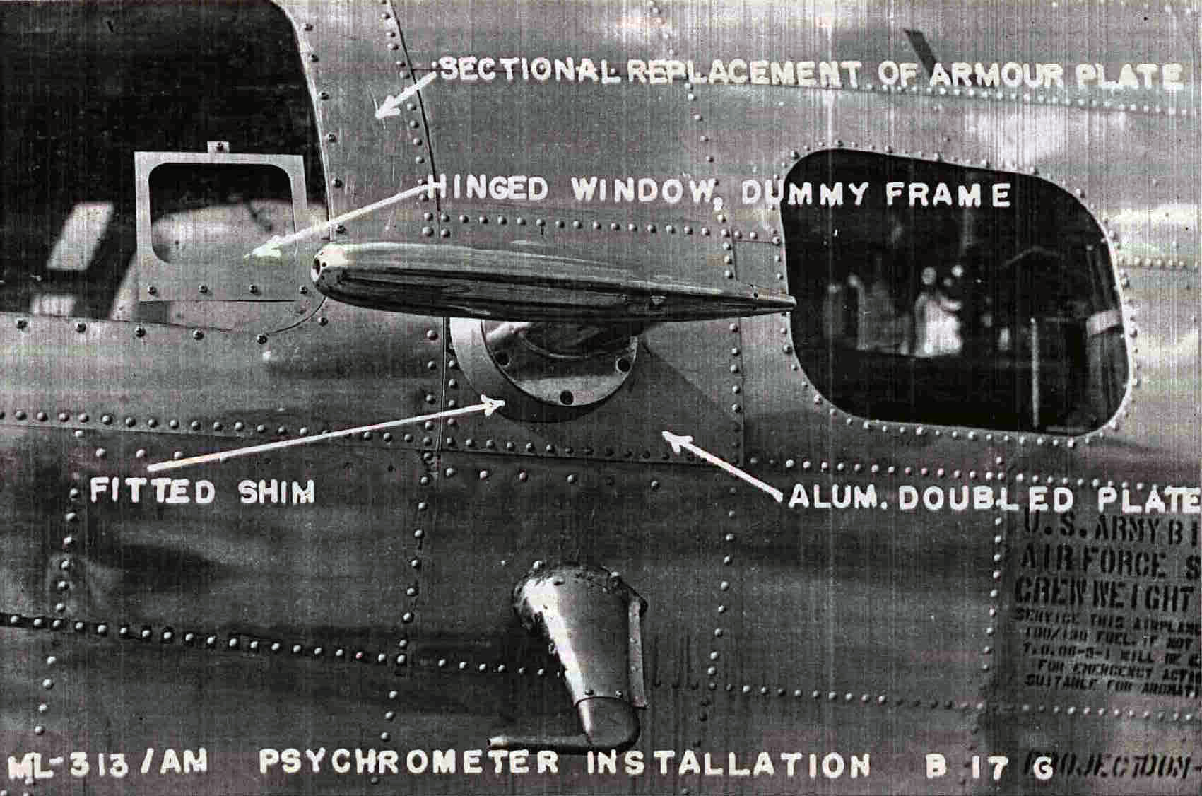 1st Weather Reconnaissance Squadron B-17 Weather Instruments.